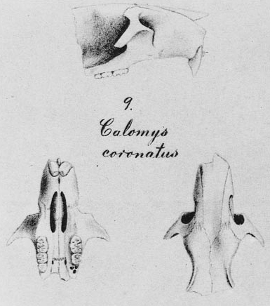 Holotype partial cranium of Calomys coronatus Winge, currently a junior synonym of Euryoryzomys russatus.